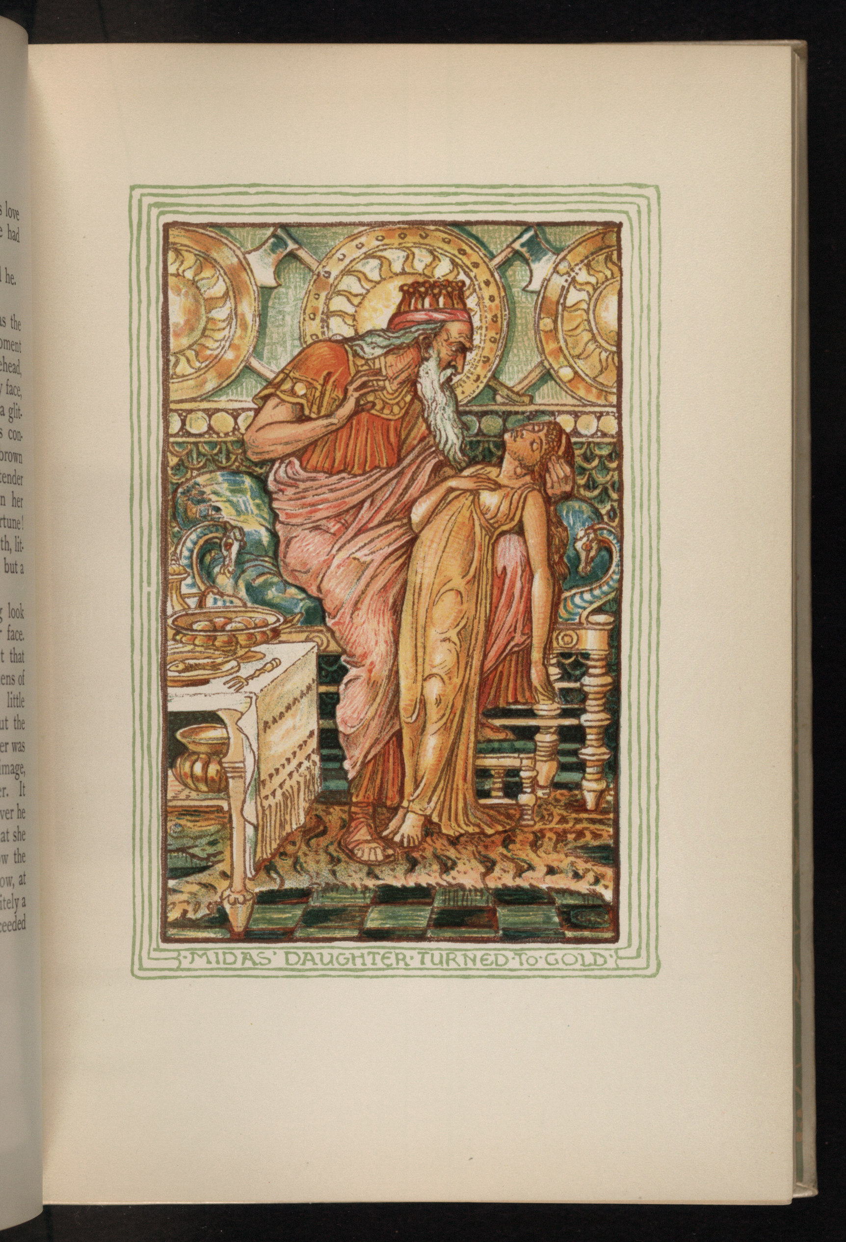 King Midas with his daughter, from A Wonder Book for Boys and Girls by Nathaniel Hawthorne (text author)[1]